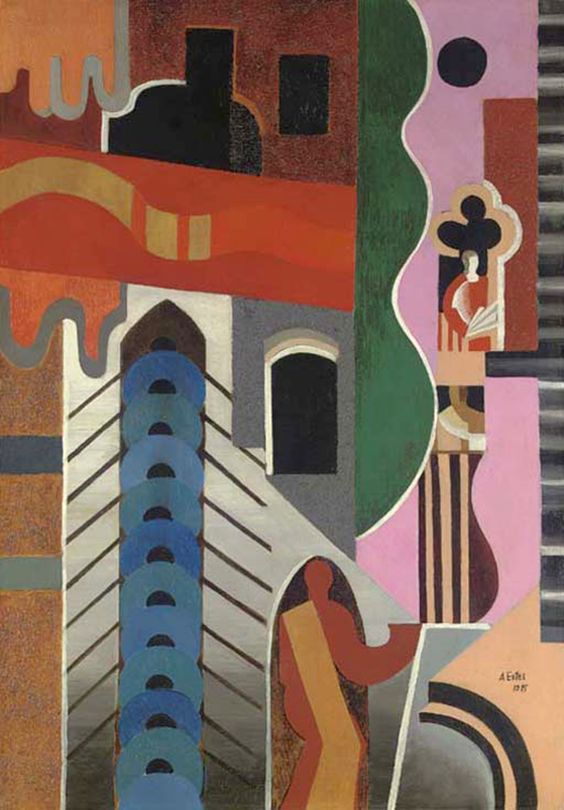 Alexandra Exter − The Boat and the Town